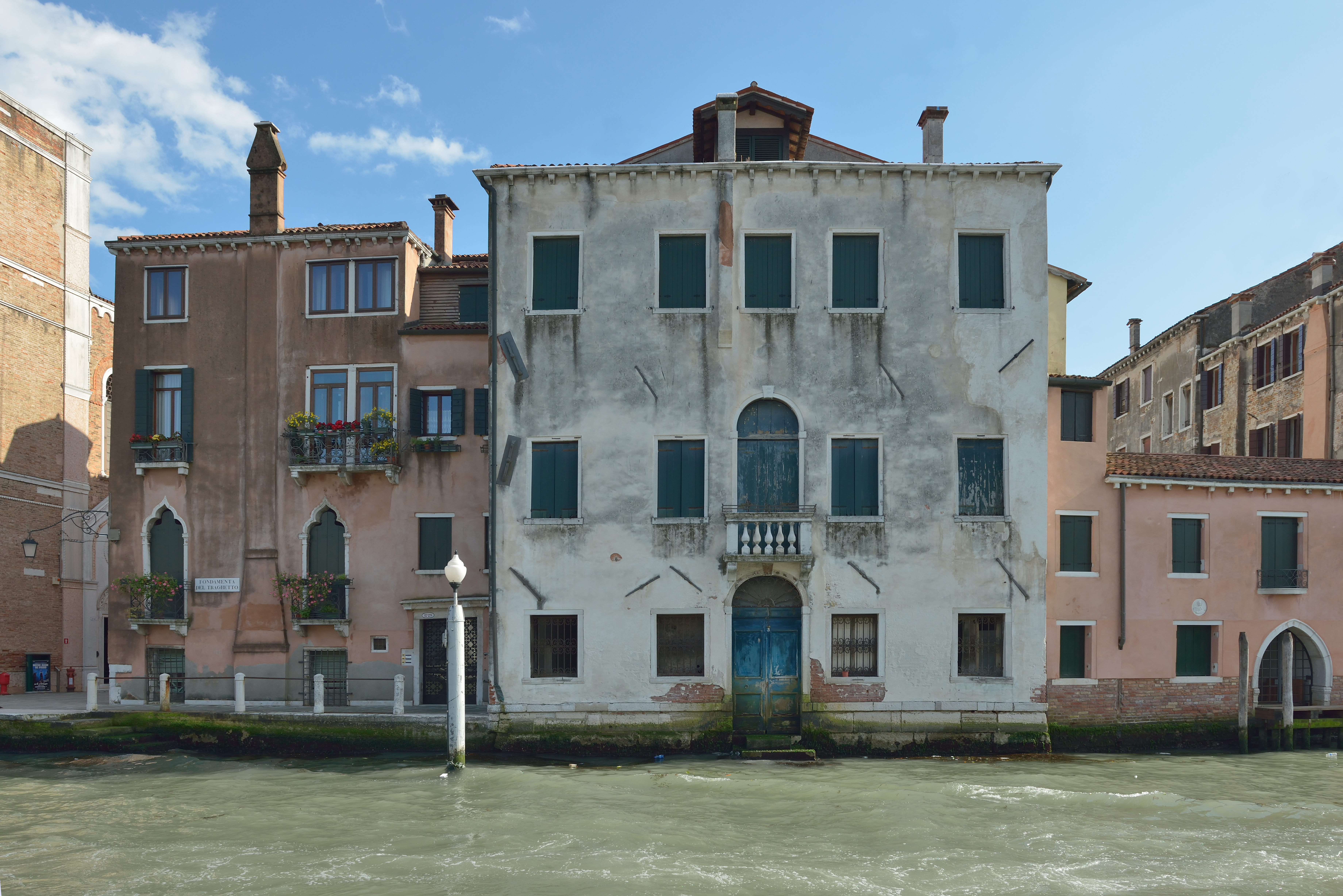 Palazzi on Salizada del Fontego dei Turchi on the Canal Grande in Venice.